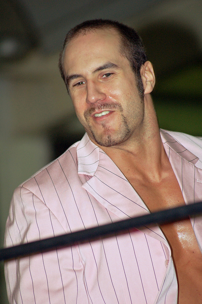 Photo I took of Claudio at 'Ted Petty Invitational' Sept 2007, Midlothian, Illinois.